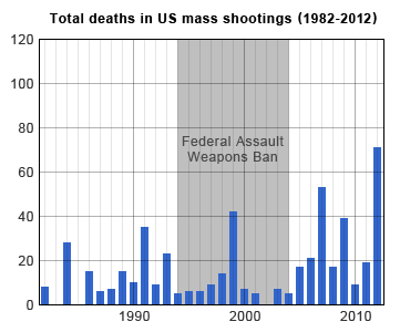 Total deaths by year of all spree shootings; data from